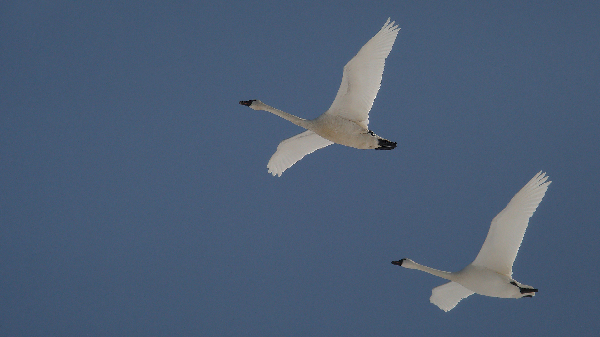 Tundra Swan -- near Long Point Provincial Park, Ontario, Canada -- 2008 March